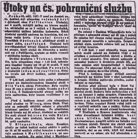 News story - Sudeten German attacks on the Czechoslovak border service